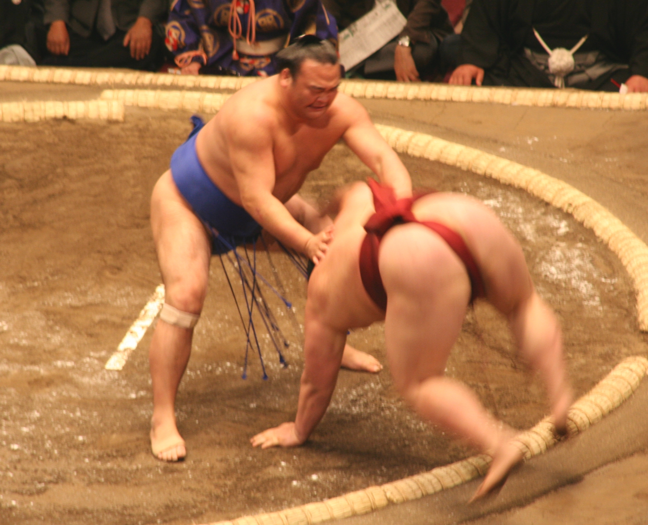 Sumo Wrestler Takamisakari beats Kasugao on the first day the of May Tournament 2007 in Tokyo.